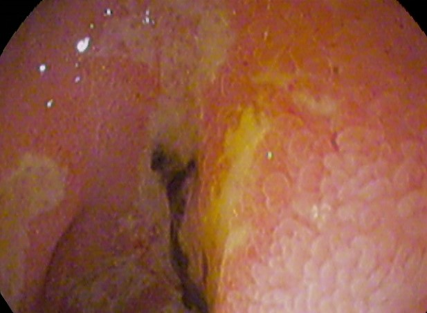 duodenal ulcer, coagulant(+), exposed vessel(-), 20 y.o, male, Indonesian. DU(A2).